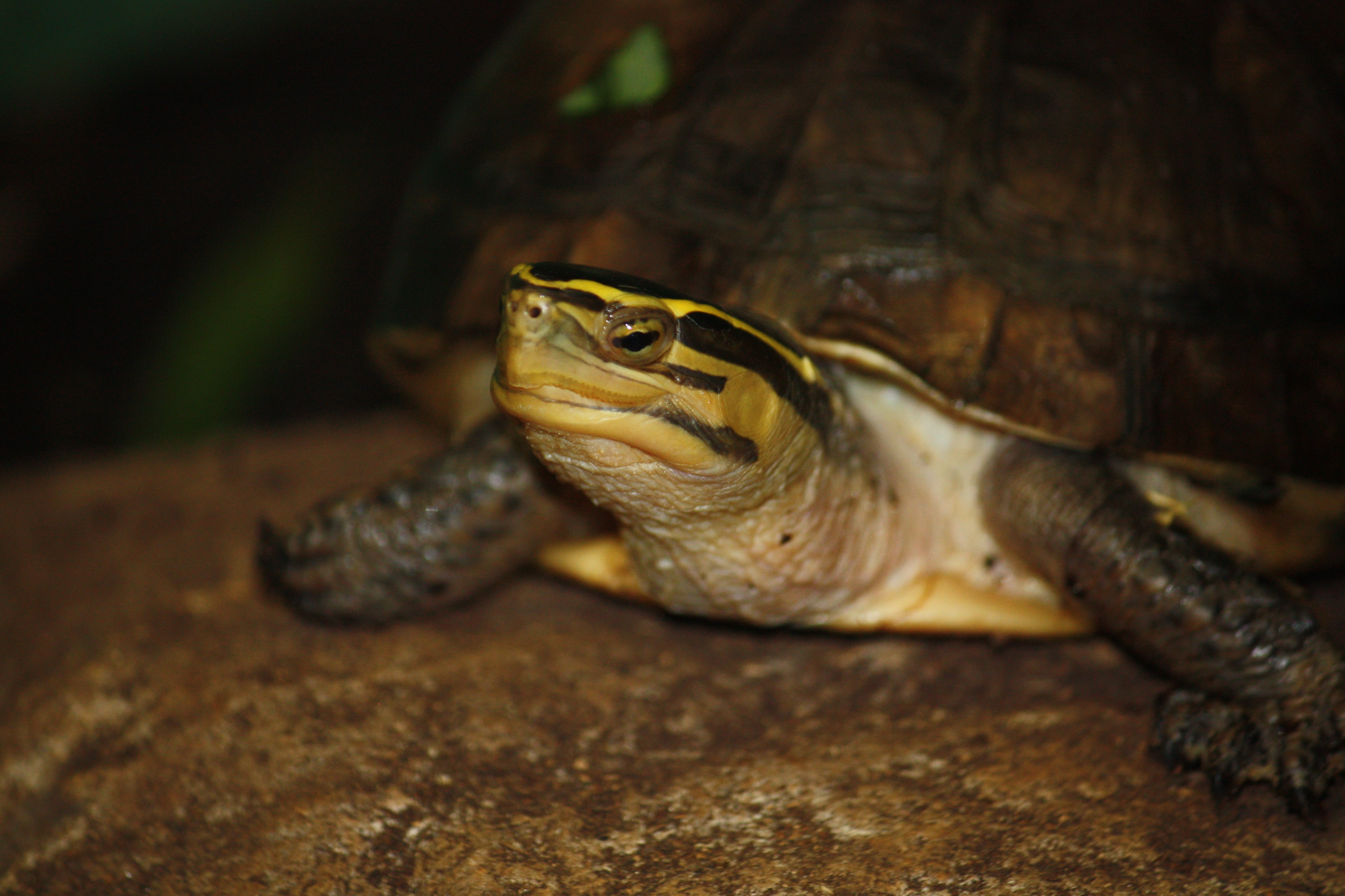 Asian Box Turtle Cuora amboinensis amboinensis at Louisville Zoo